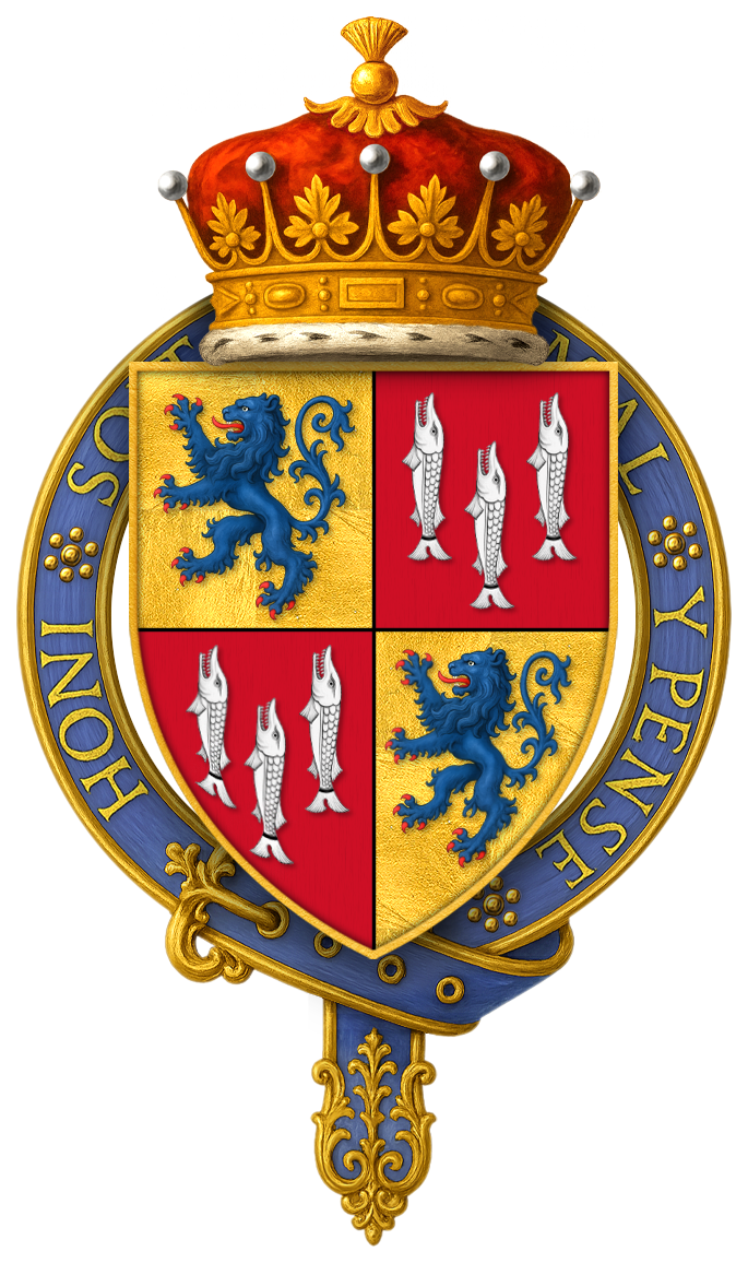 Coat of arms of Sir Henry Percy, 4th Earl of Northumberland, KG Quarterly: 1 and 4, or a lion rampant azure (for Percy), quartering gules three lucies argent (for Lucy); 2 and 3, barry of six or and vert, a bend gules (for Poynings) Henry Percy's mother, Eleanor Poynings, daughter of Sir Richard Poynings, of Poynings, was heir general to her grandfather, Sir Robert Poynings, 4th Baron Poynings.